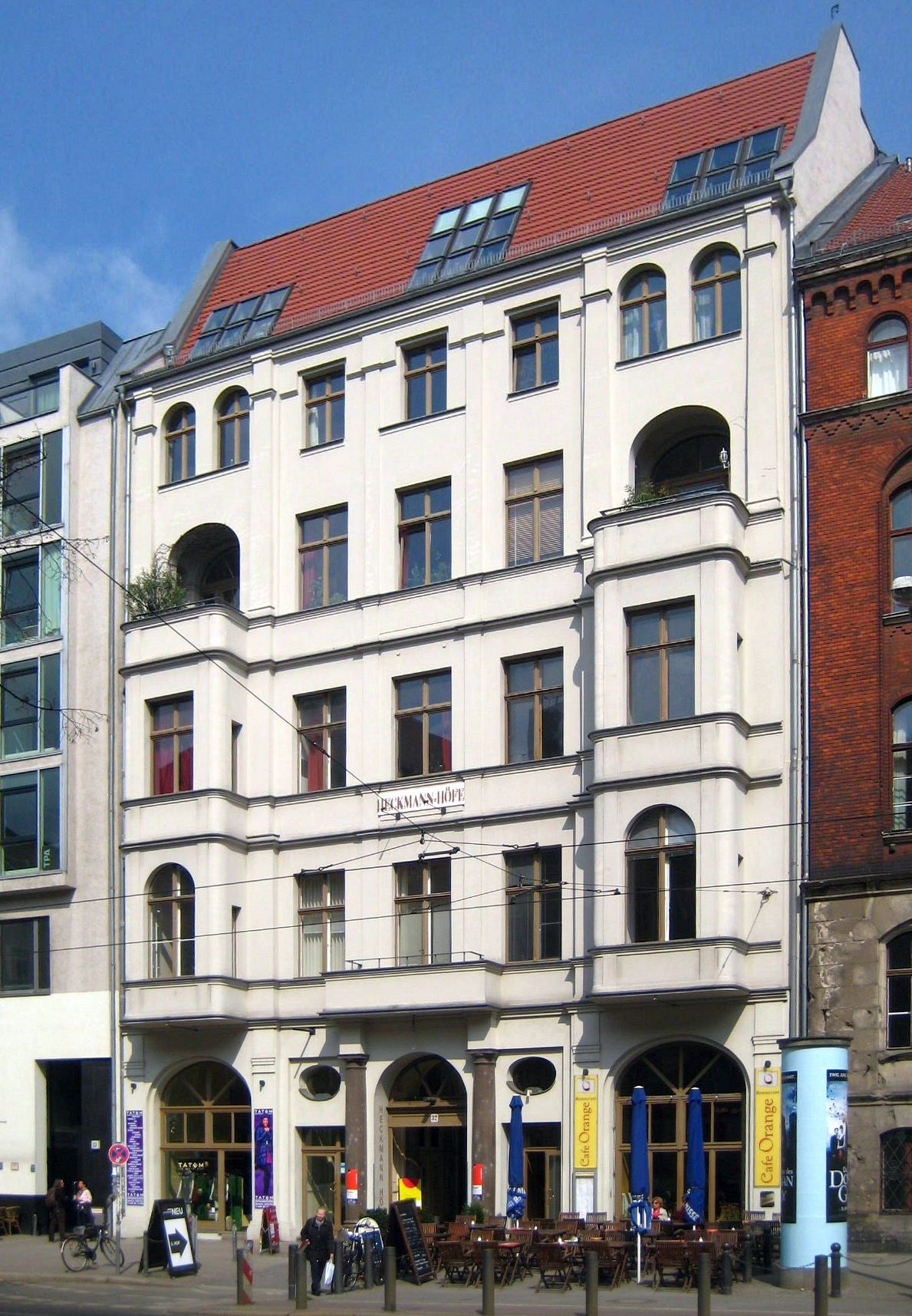 Residential building and front building of the Heckmann-Höfe at Oranienburger Straße No. 32 in Berlin-Mitte. The building with a crriage house was constructed around 1890. It is part of the protected historic buildings area Spandauer Vorstadt.